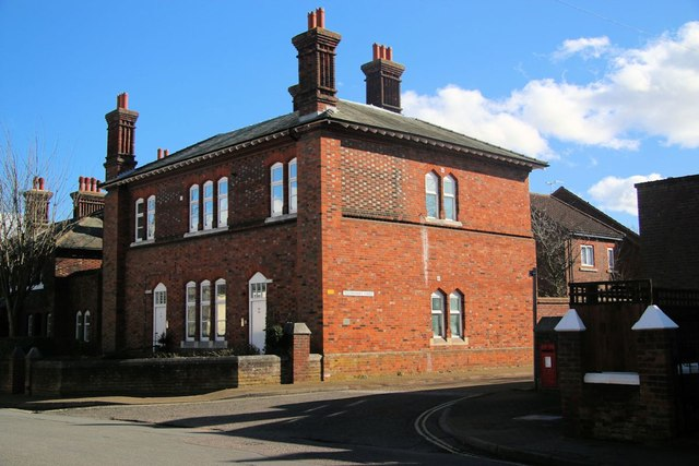 Former Yeomanry Barracks, Kings Road, Bury St Edmunds